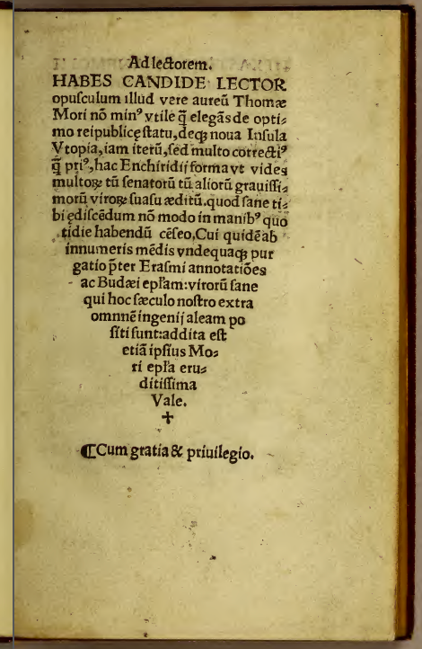 This is the title page of Thomas More's Utopia as it was printed in 1517 edition (Gilles de Gourmont, Paris)